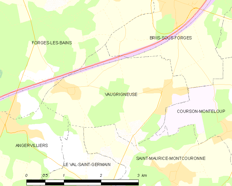 Map of French municipality Vaugrigneuse